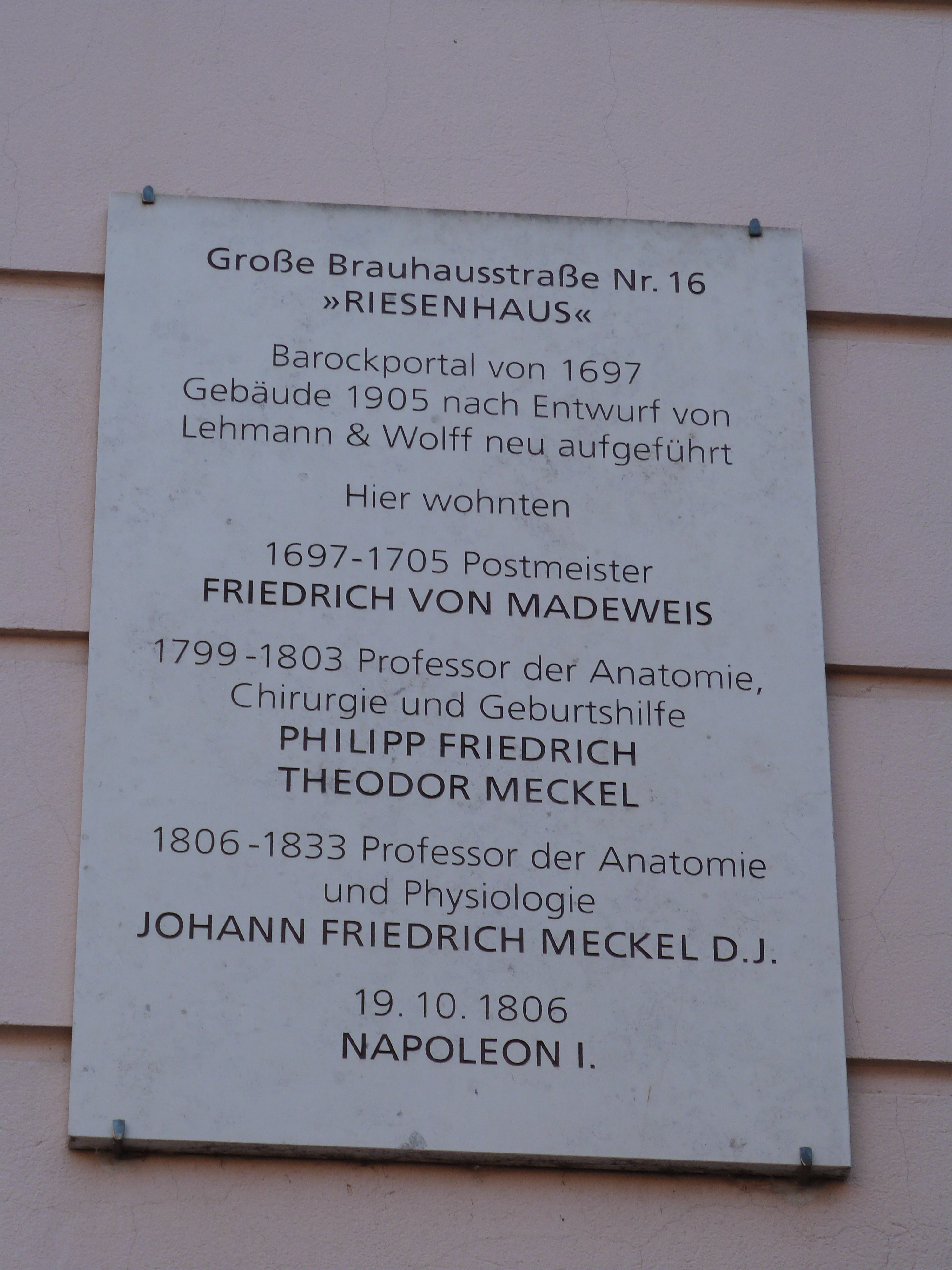 Plaque in memory, Große Brauhausstraße No. 16 (Giant's House), Halle (Saale)